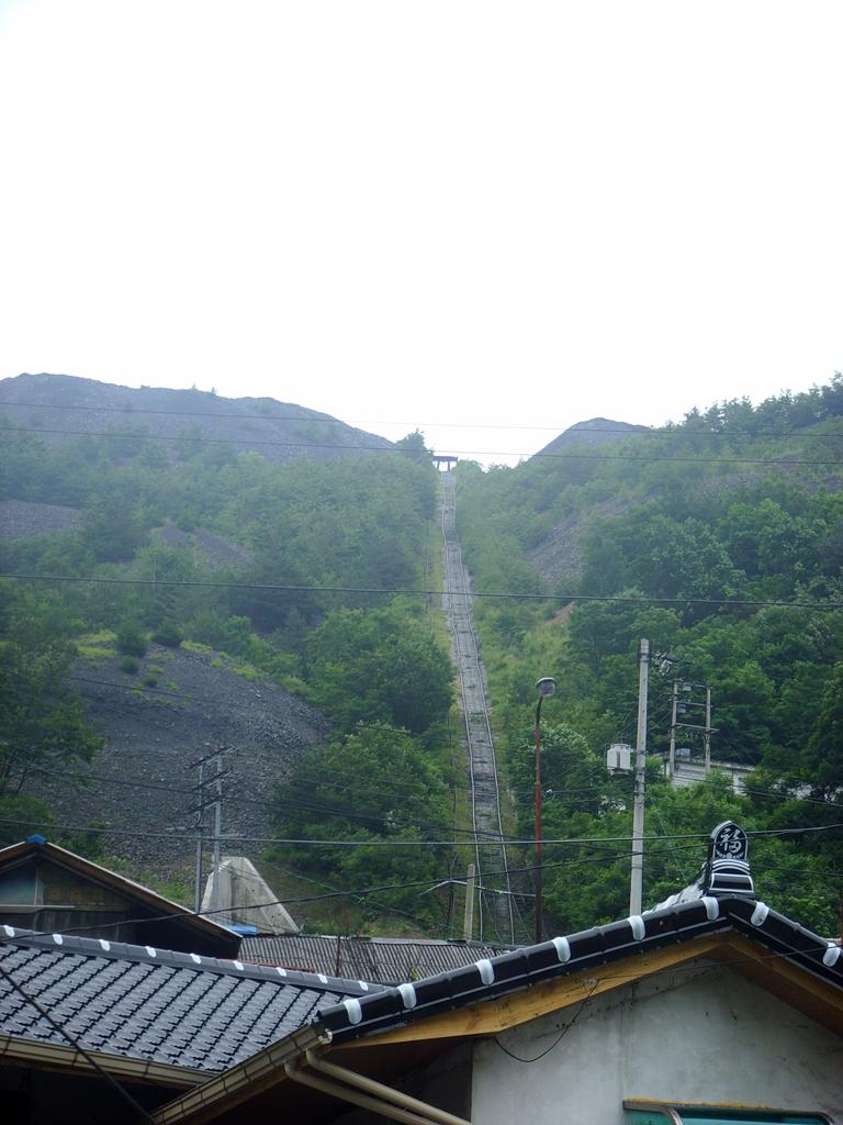 Dogye Mining Station Incline (Dogye-eup, Samcheok-si, Gangwon-do, South Korea)